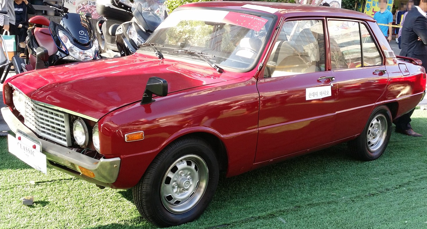 Kia Brisa